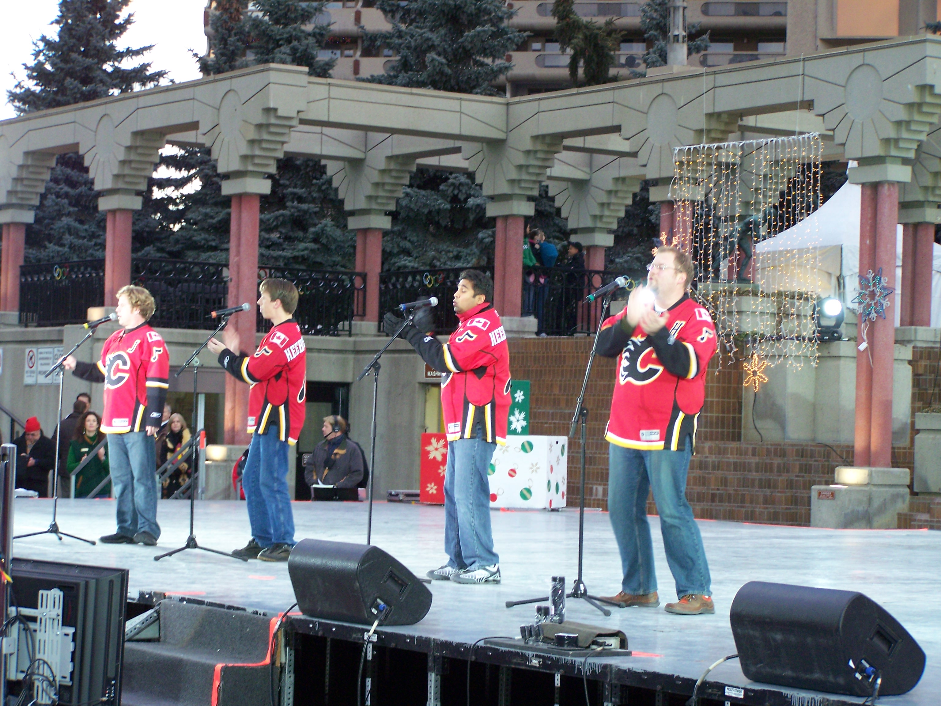 The Heebee-jeebees performing at a Christmas season event at Olympic Plaza in downtown Calgary, Alberta, Canada.